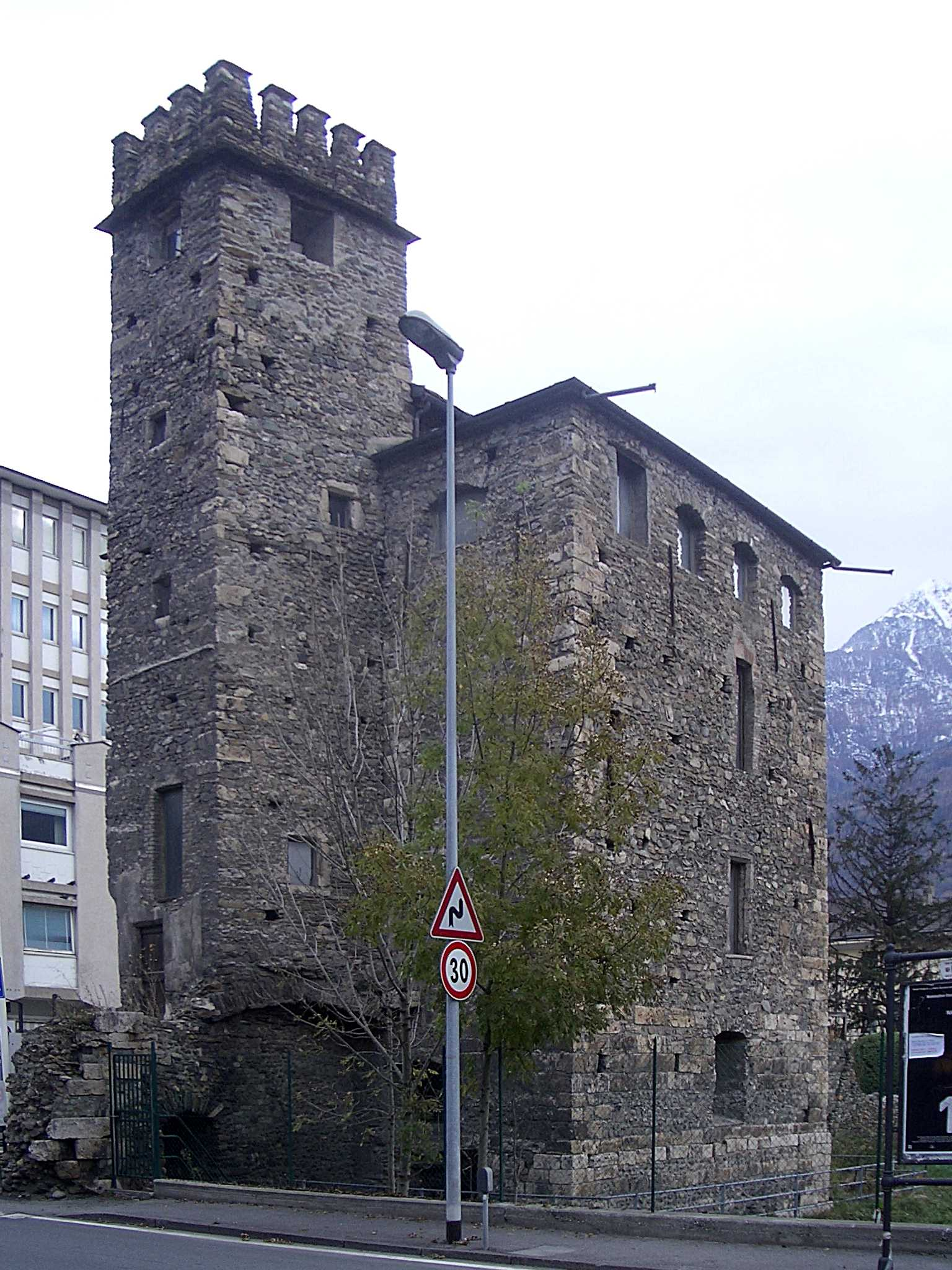 The medieval tower called "the leper's tower"